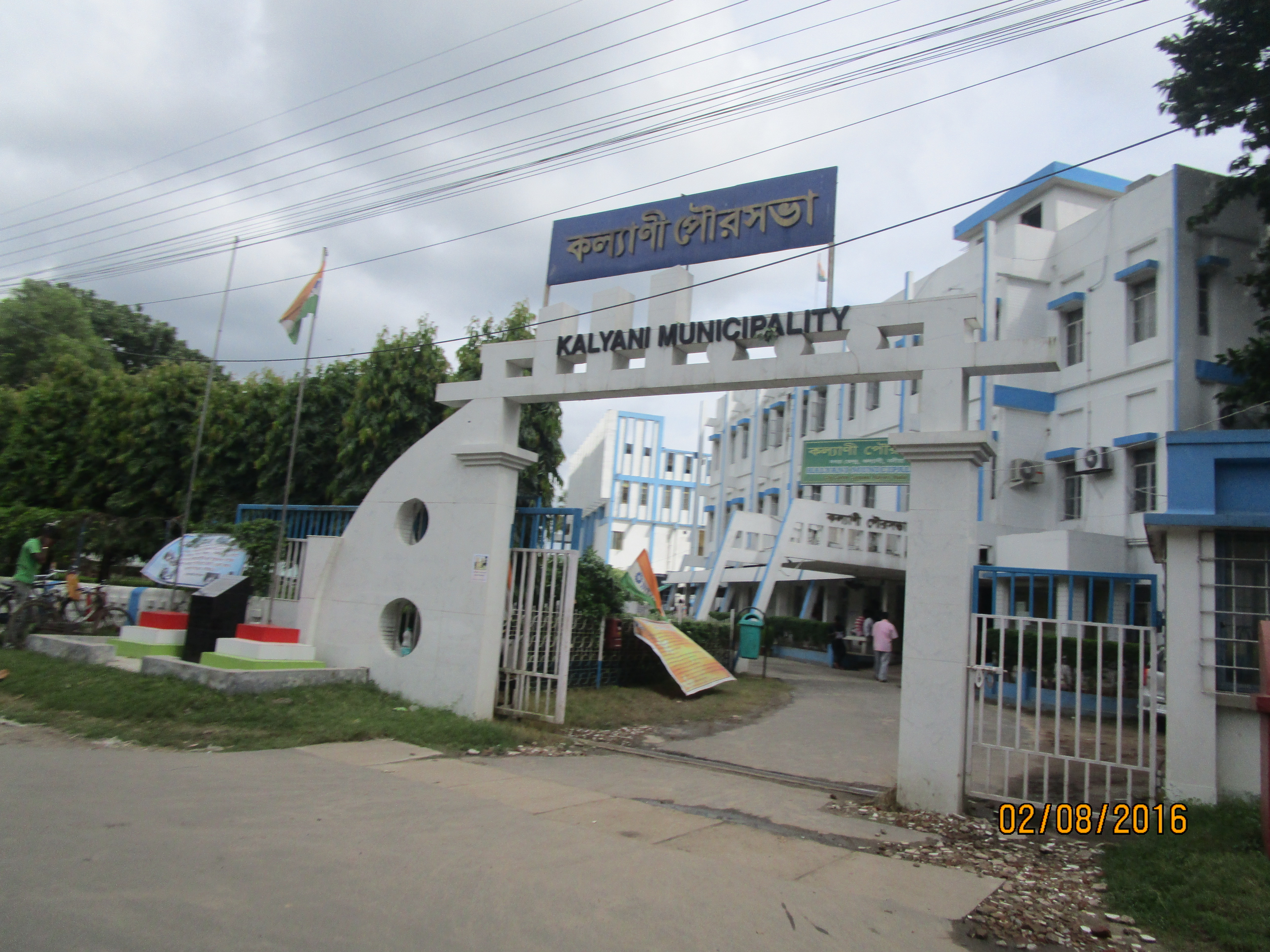 The office of Kalyani Municipality